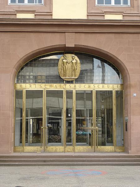 Main Portal of the University of Mannheim